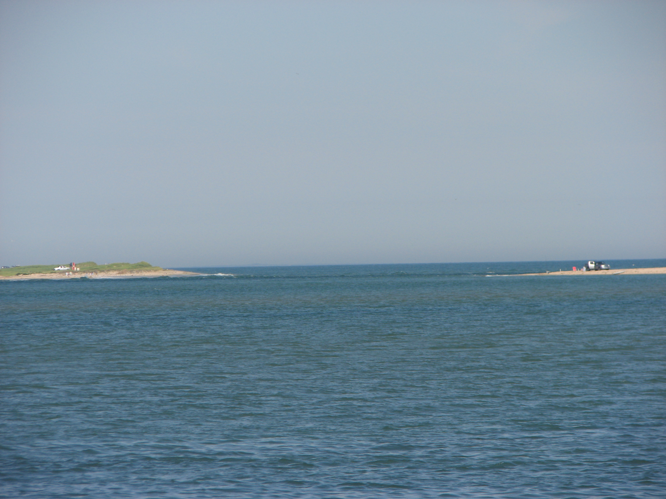 Photo of the "Katama Breach". During the winter of 2006-2007 a violent storm (a "Noreaster" washed away the barrier beach separating the Katama section of Edgartown, MA from Chappaquidick Island. This photo was taken from the southwestern portion of Katama Bay at a point half-way between the Katama boat ramp and the breach. It clearly shows open water between the two ends of the barrier beach. As in previous breaches, over the succeeding two years (2007-2009), the breach migrated in an easterly direction and by the summer of 2009 the opening was significantly smaller than shown in this photo. The breach opened Katama Bay, normally open only to the sea at its north end, to an ocean current. The cleansing of the bay has been beneficial and eliminated much of the silt and grasses that had accumulated. It is anticipated the cleansing will improve scallop and clam production. The breach continued its migration eastward and closed completely in 2015.